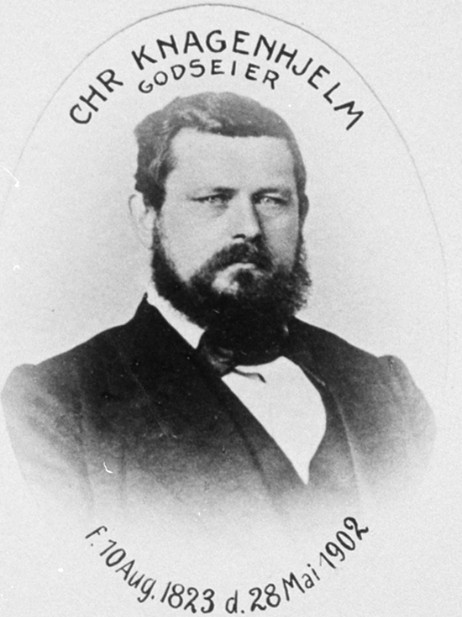 Christen Knagenhjelm (1823–1902).